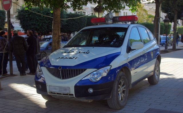 A car of Tunisian traffic police